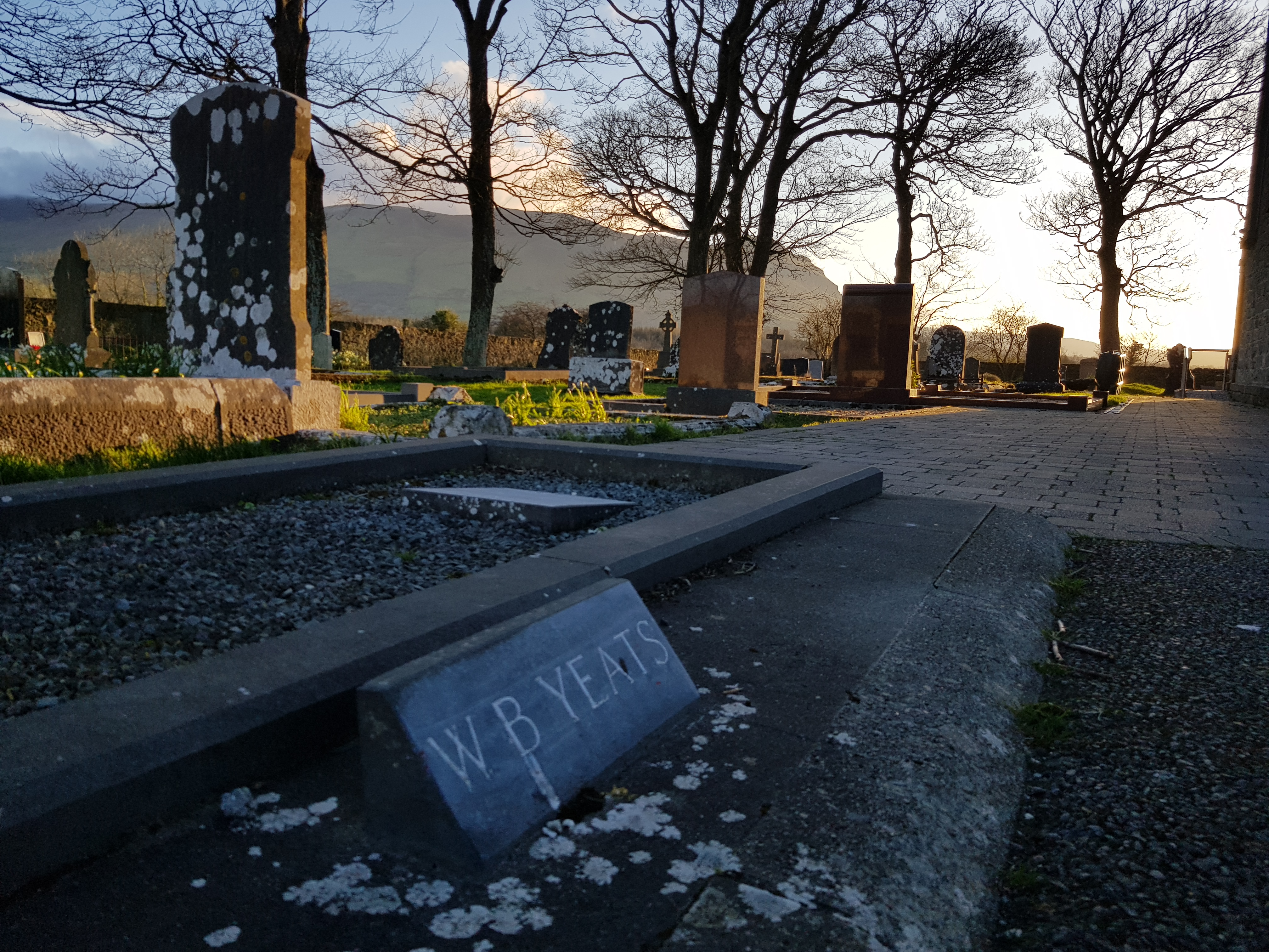 The Grave of WB Yeats in Drumcliffe, Co. Sligo with the Dartry Mountains in the background